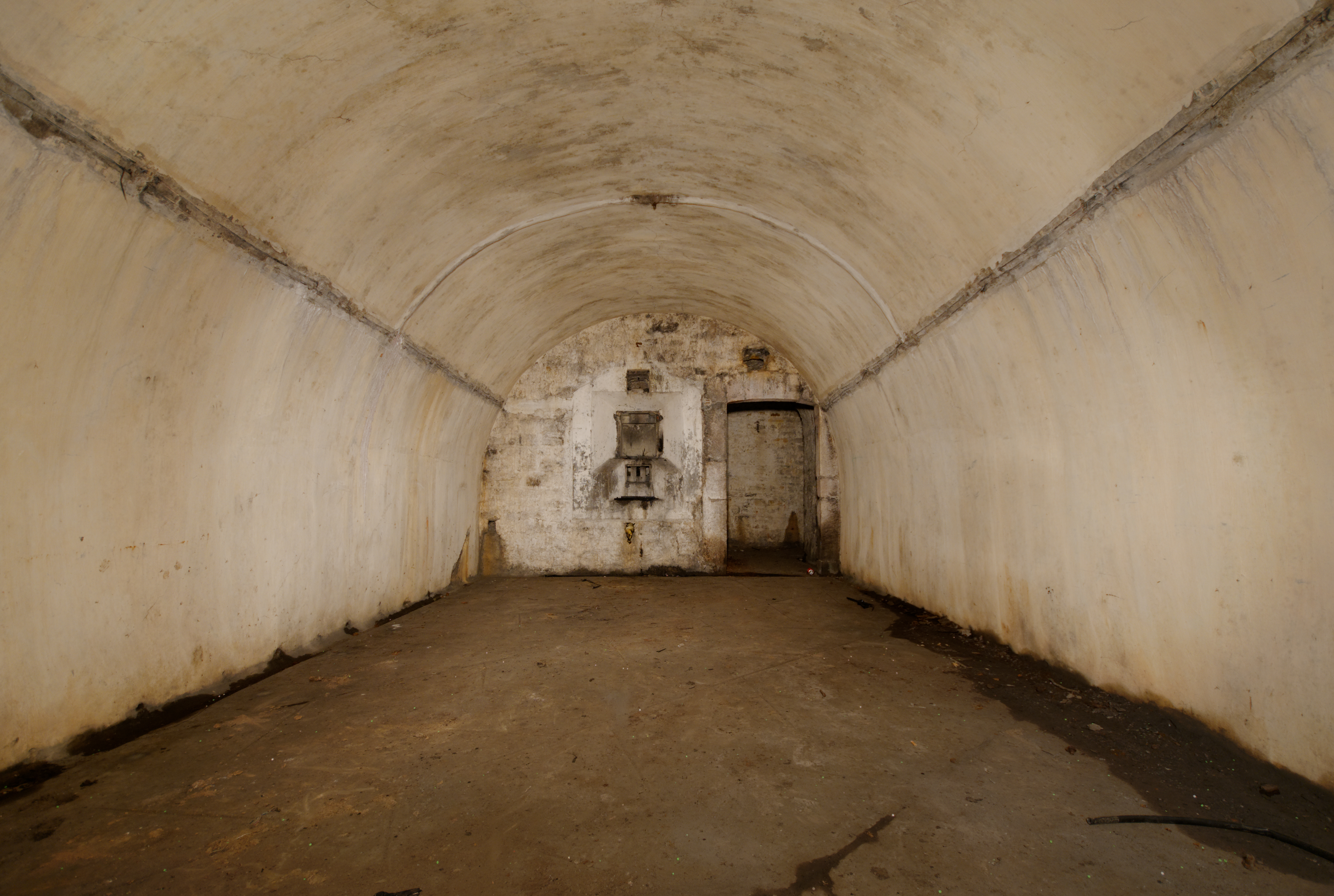 This photograph was taken with a Nikon D300 Magasin de secteur du Bosmont : le petit magasin à poudre (lightpainting).